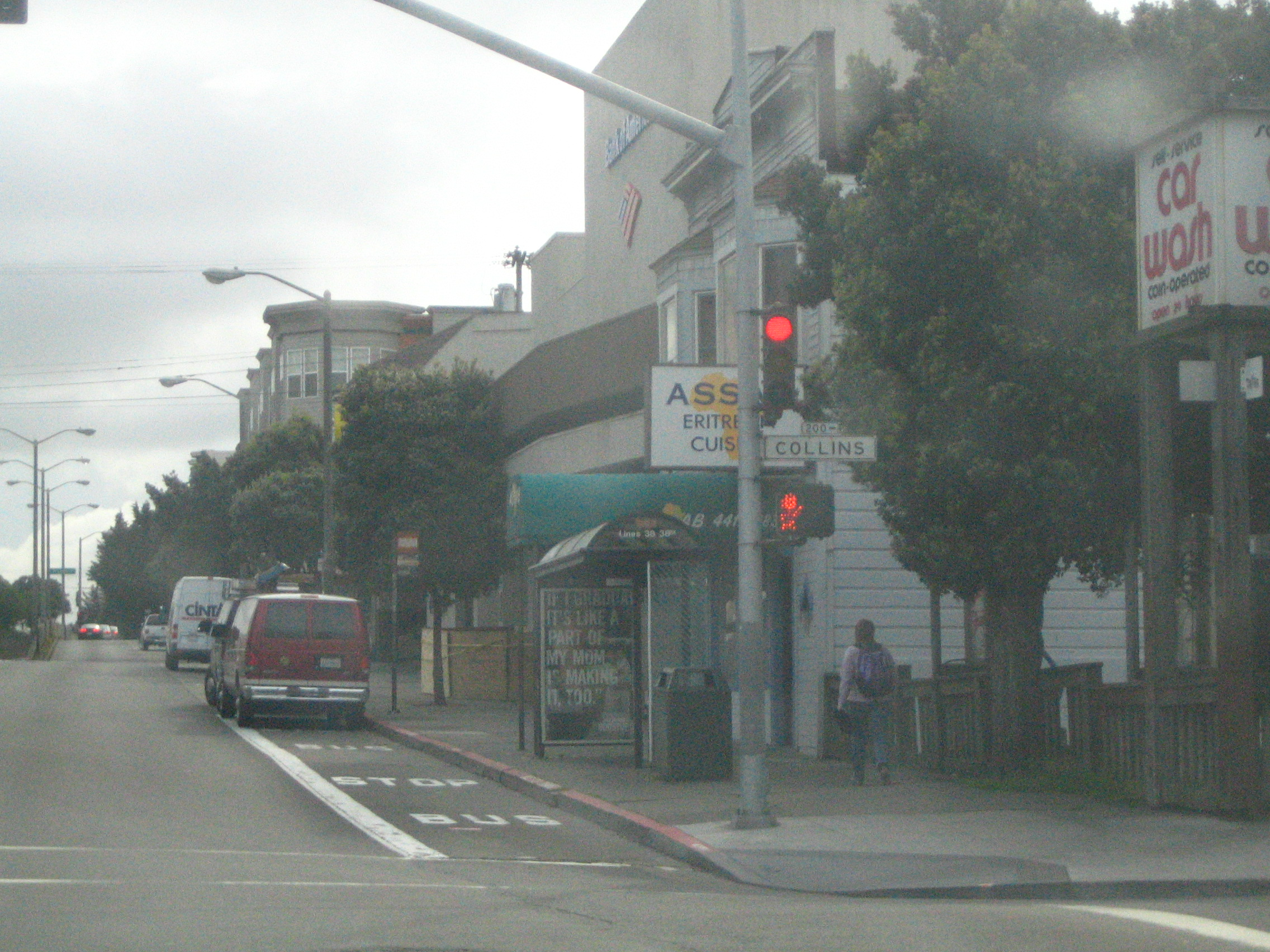 An Eritrean restuarant in San Francisco.